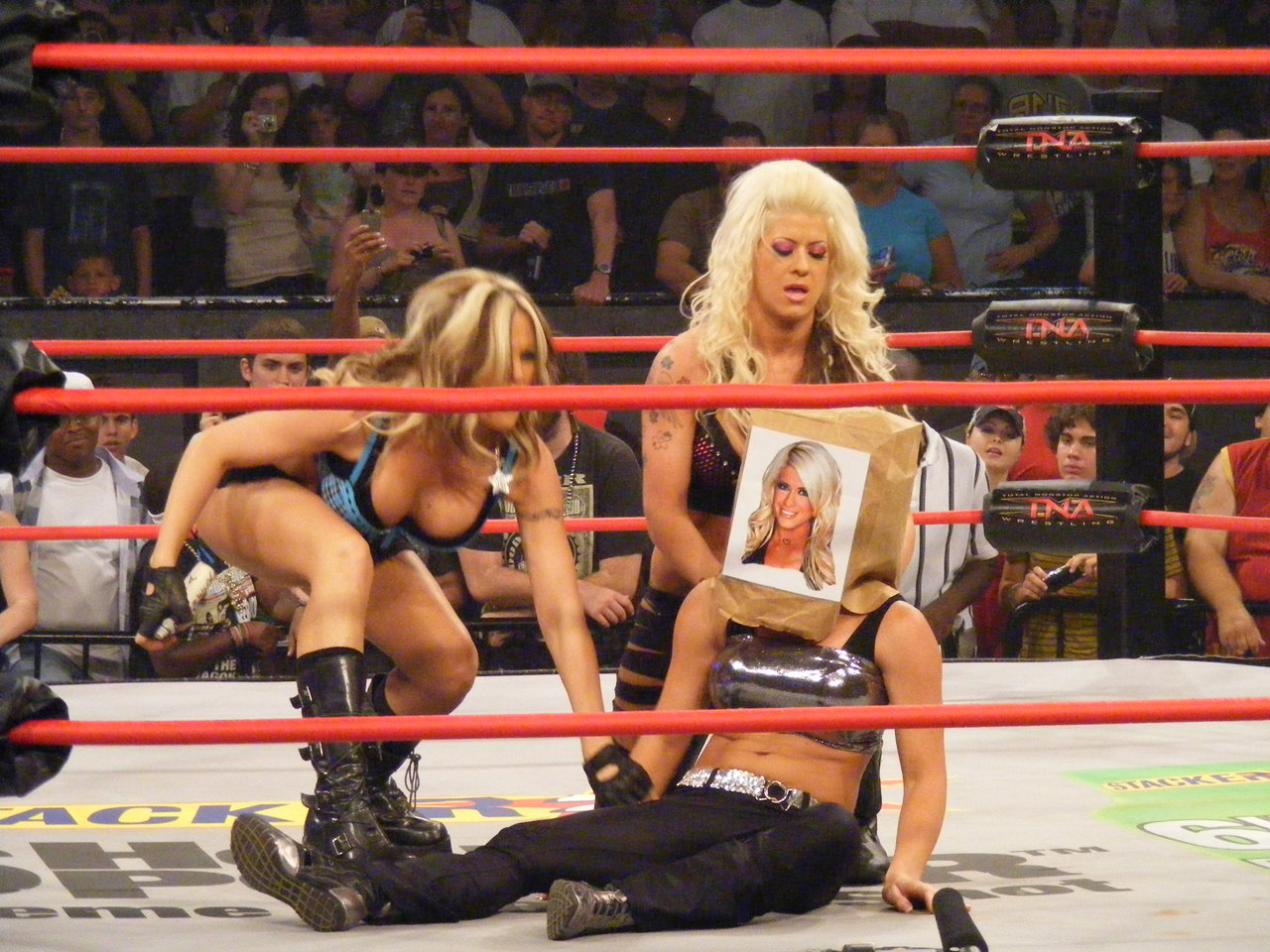 Madison Rayne being humiliated by The Beautiful People.